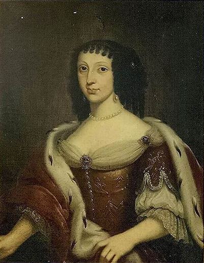 Portrait of Elizabeth of Palatinate-Zweibrücken (1642-1677), wife Victor Amadeus, Prince of Anhalt-Bernburg